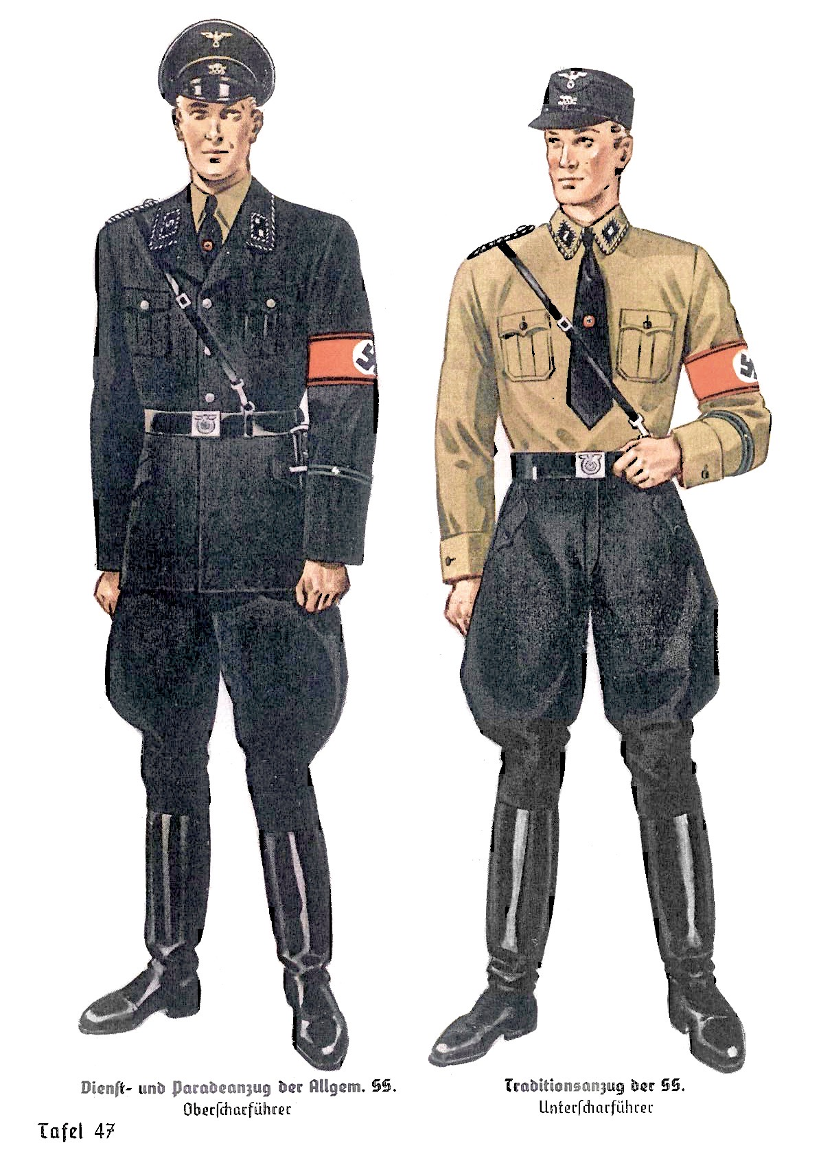 ORGANISATIONSBUCH DER NSDAP 1937: Tafel 47 Dienst- und Paradeanzug der Allgem. SS (Oberscharführer), Traditionsanzug der SS (Unterscharführer)Color plate showing uniforms, emblems, insignia, etc. of the Schutzstaffel (SS), a major paramilitary organization under Adolf Hitler and the the Nationalsozialistische Deutsche Arbeiterpartei (NSDAP, National Socialist German Workers' Party) in Nazi Germany. Cropped image with increased contrasts/brighter colors, copied from low resolution jpg-files of the pages of "Organisationsbuch der NSDAP." by "Reichsorganisationsleiter" Robert Ley (1890 – 1945) for "Nationalsozialistische Deutsche Arbeiter-Partei, Reichsorganisationsamt." Published 1937. Publisher : Zentralverlag der NSDAP, Franz Eher Nachf., München. Language: German. Fraktur style letters. Legal disclaimer This image shows (or resembles) a symbol that was used by the National Socialist (NSDAP/Nazi) government of Germany or an organization closely associated to it, or another party which has been banned by the Federal Constitutional Court of Germany. The use of insignia of organizations that have been banned in Germany (like the Nazi swastika or the arrow cross) are also illegal in Austria, Hungary, Poland, Czech Republic, France, Brazil, Israel, Ukraine, Russia and other countries, depending on context. In Germany, the applicable law is paragraph 86a of the criminal code (StGB), in Poland – Art. 256 of the criminal code (Dz.U. 1997 nr 88 poz. 553).